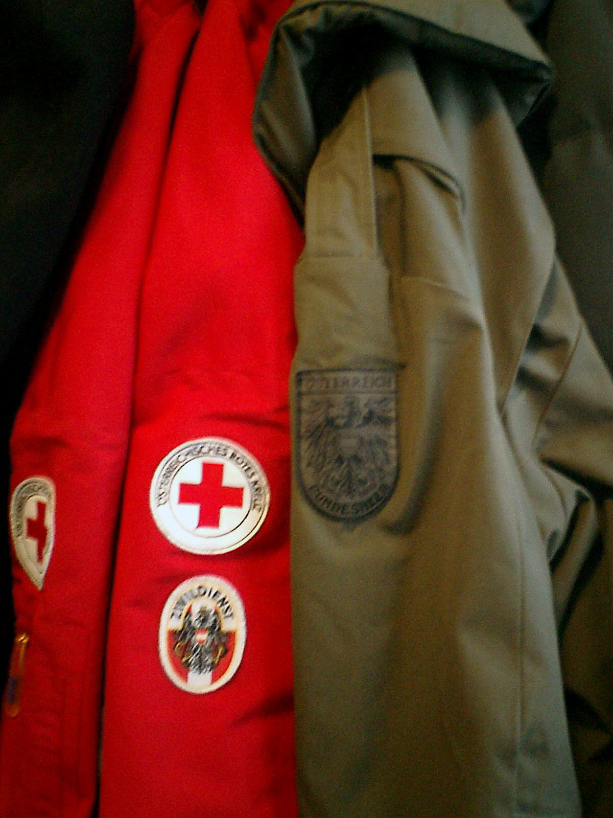 Photograph of uniforms contrasting civil and military national service, in Austria